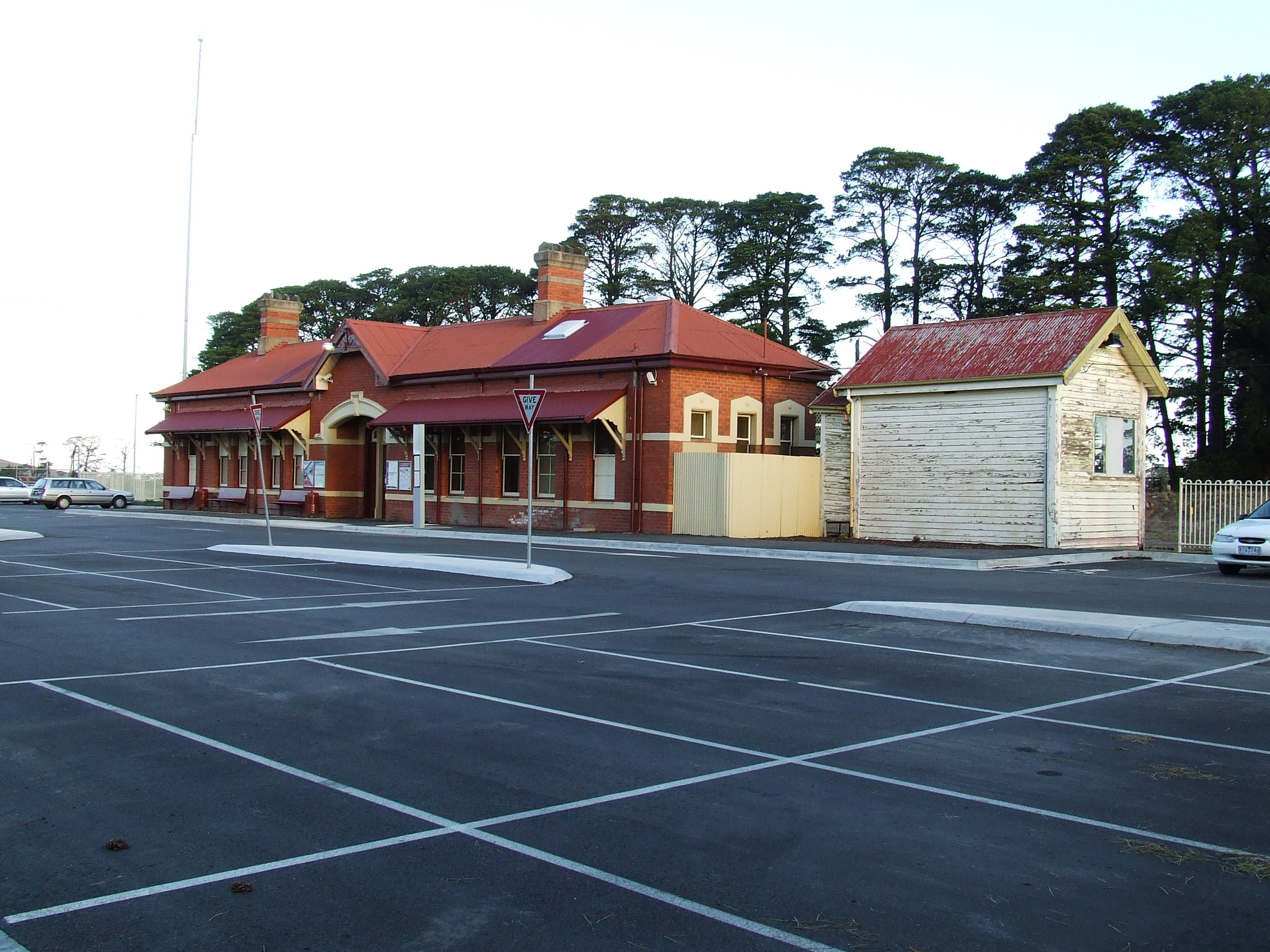 Photograph of Ballan railway station, Victoria.